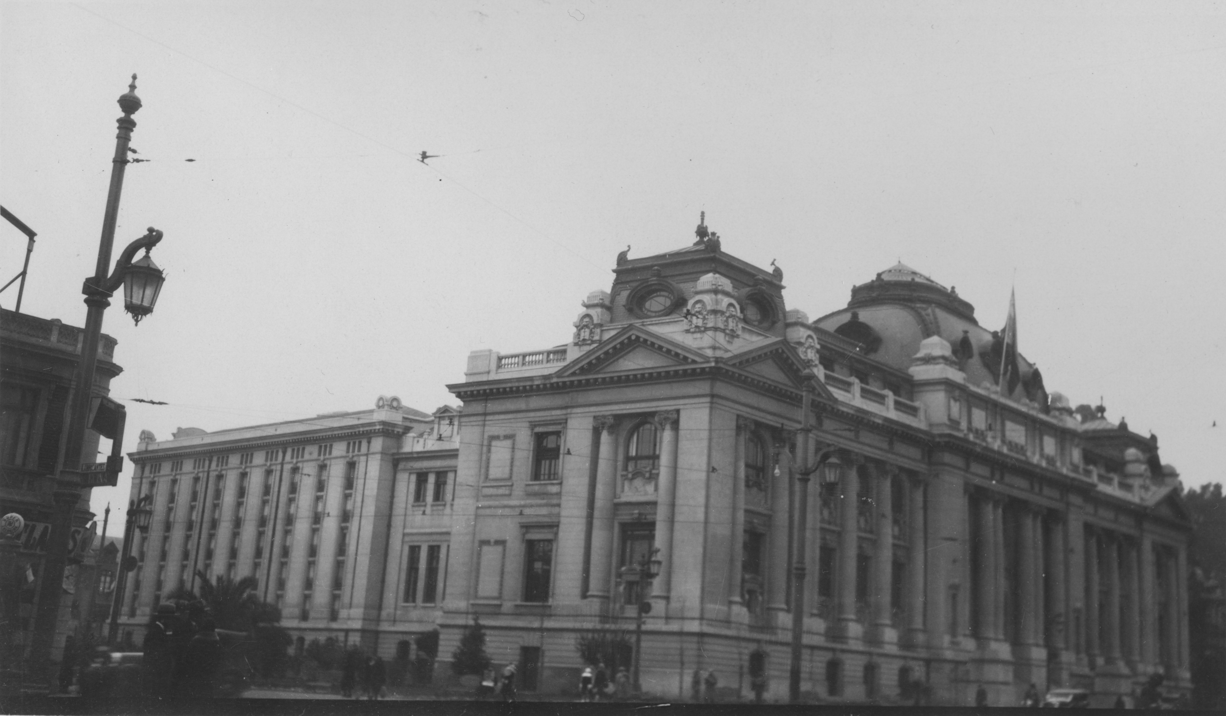 The Biblioteca Nacional de Chile—National Library of Chile in Santiago de Chile, Chile.